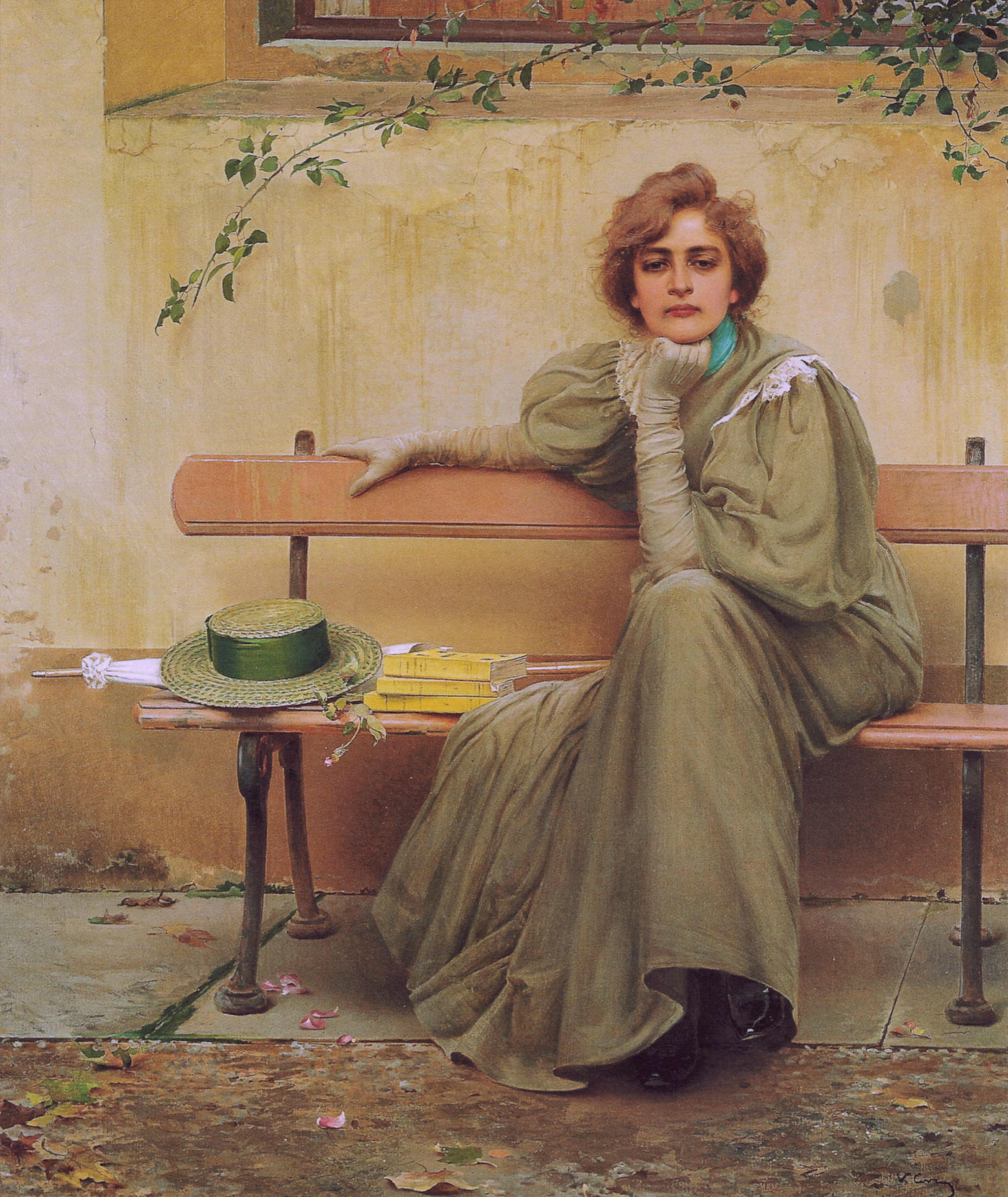 The young lady is Elena Vecchi, a friend's daughter.